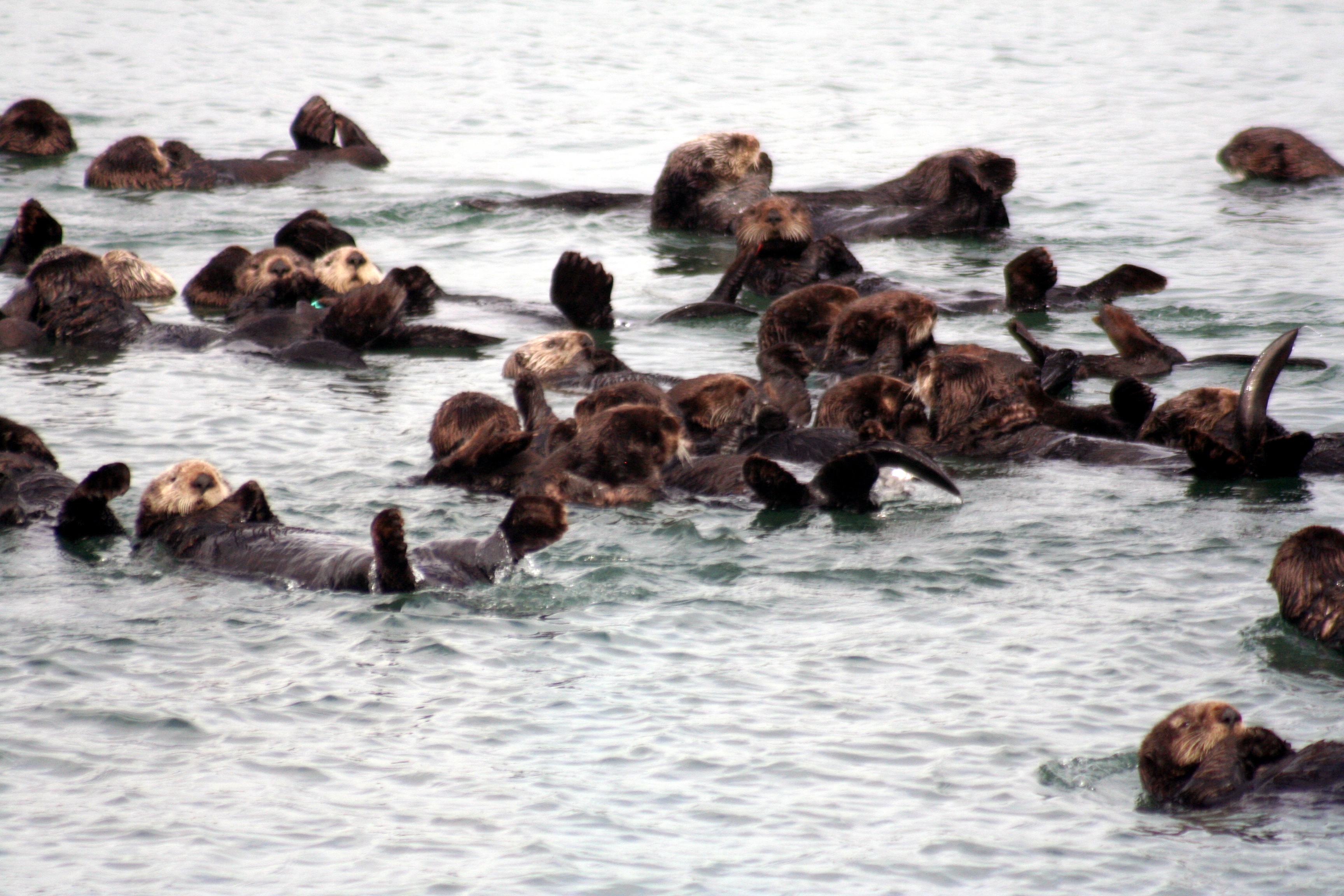 Sea otters at Moss Landing, California.